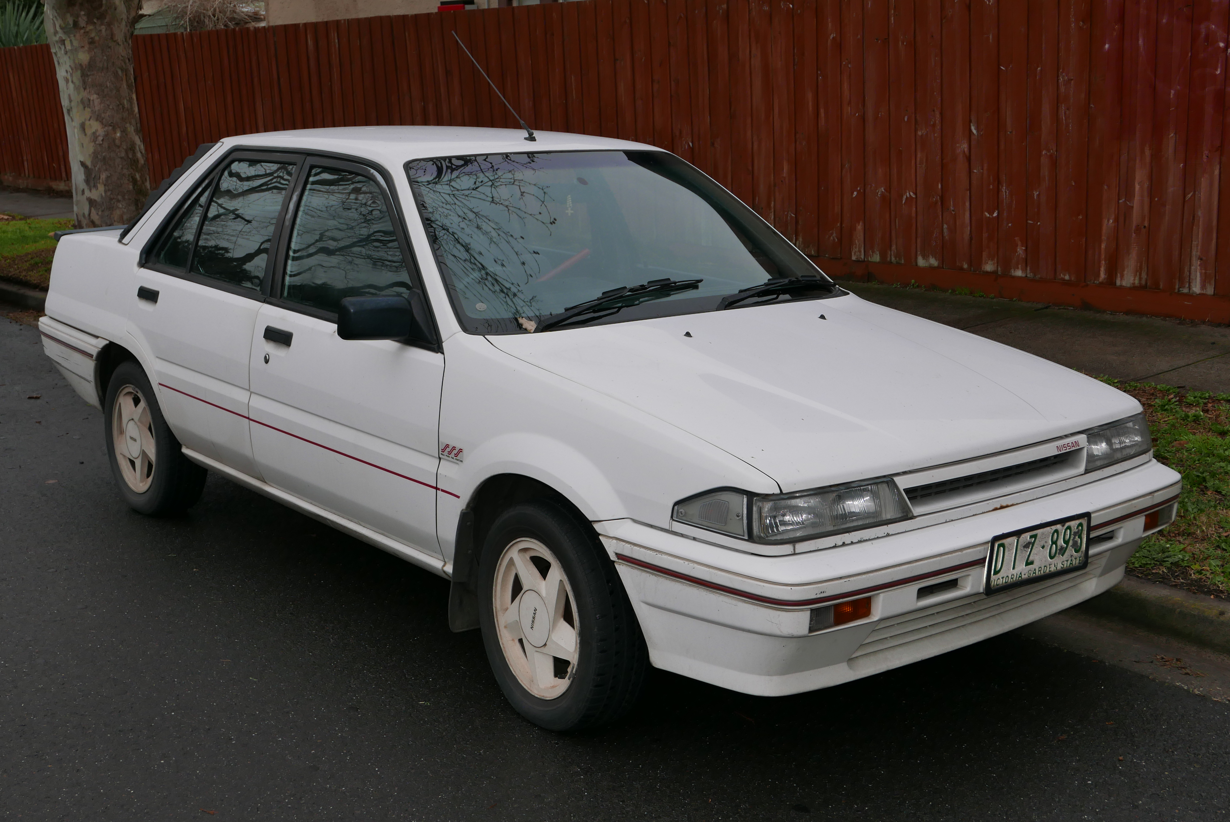 1988 Nissan Pulsar (N13) SSS Vector sedan. Photographed in Alphington, Victoria, Australia. Vehicle registration enquiry results Jurisdiction Victoria Registration DIZ893 Chassis code Not available Engine code 18LE25010606 Compliance date Not available Year of manufacture 1988